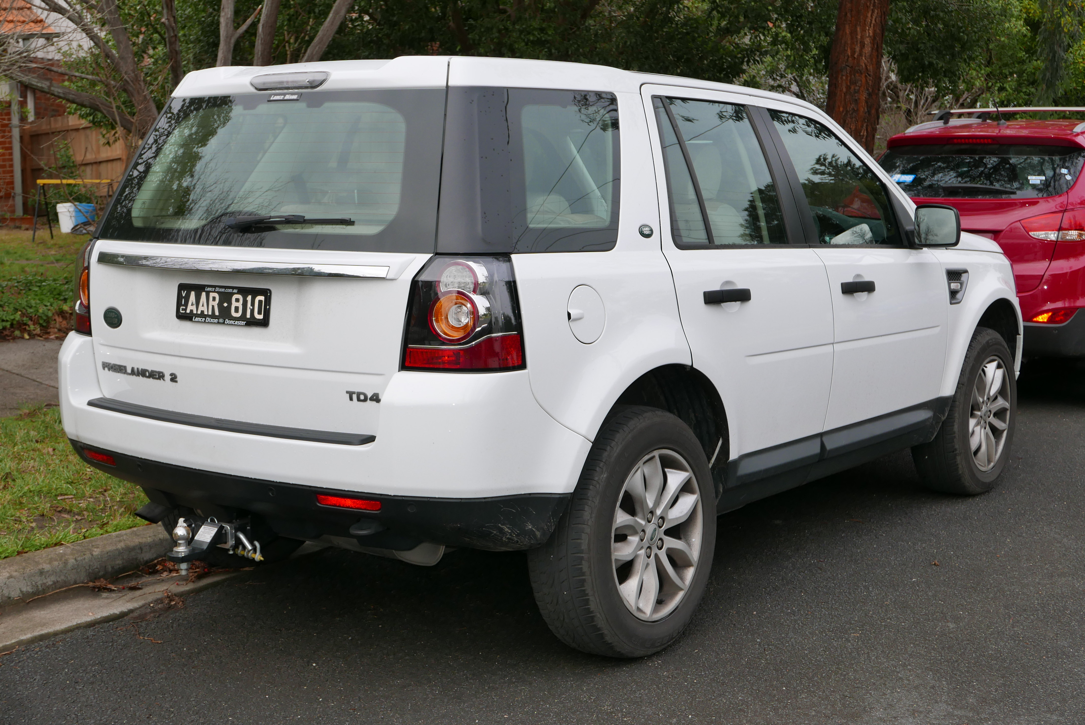 2013 Land Rover Freelander 2 (LF MY13) TD4 wagon. This is the base model, not the SE trim. Photographed in Eaglemont, Victoria, Australia. Vehicle registration enquiry resultsJurisdictionVictoriaRegistrationAAR810Chassis codeSALFA2CB3DH369399Engine code10DZ794059724224DTCompliance date2013-09Year of manufacture2013